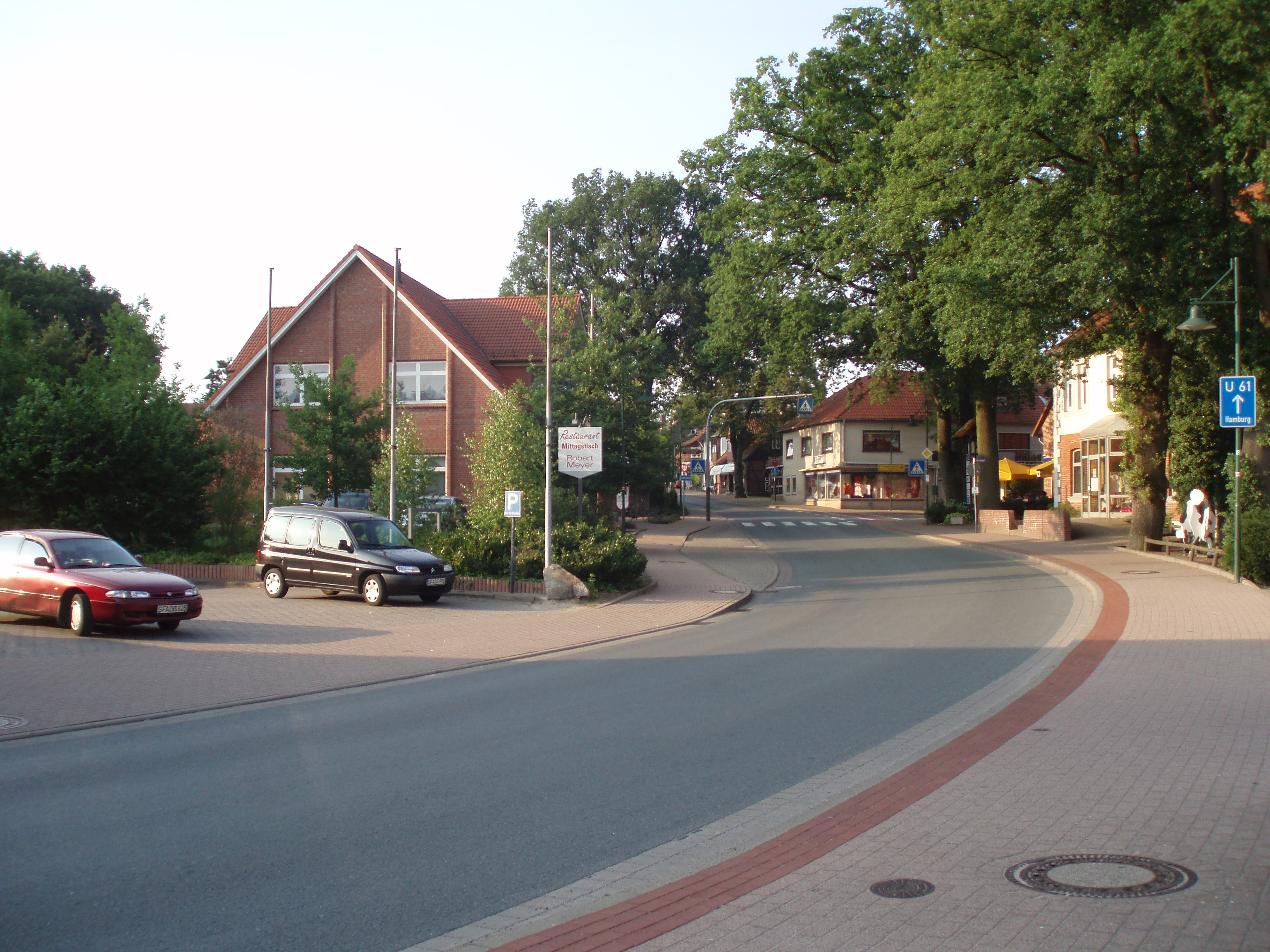 Bispingen, Germany - main street